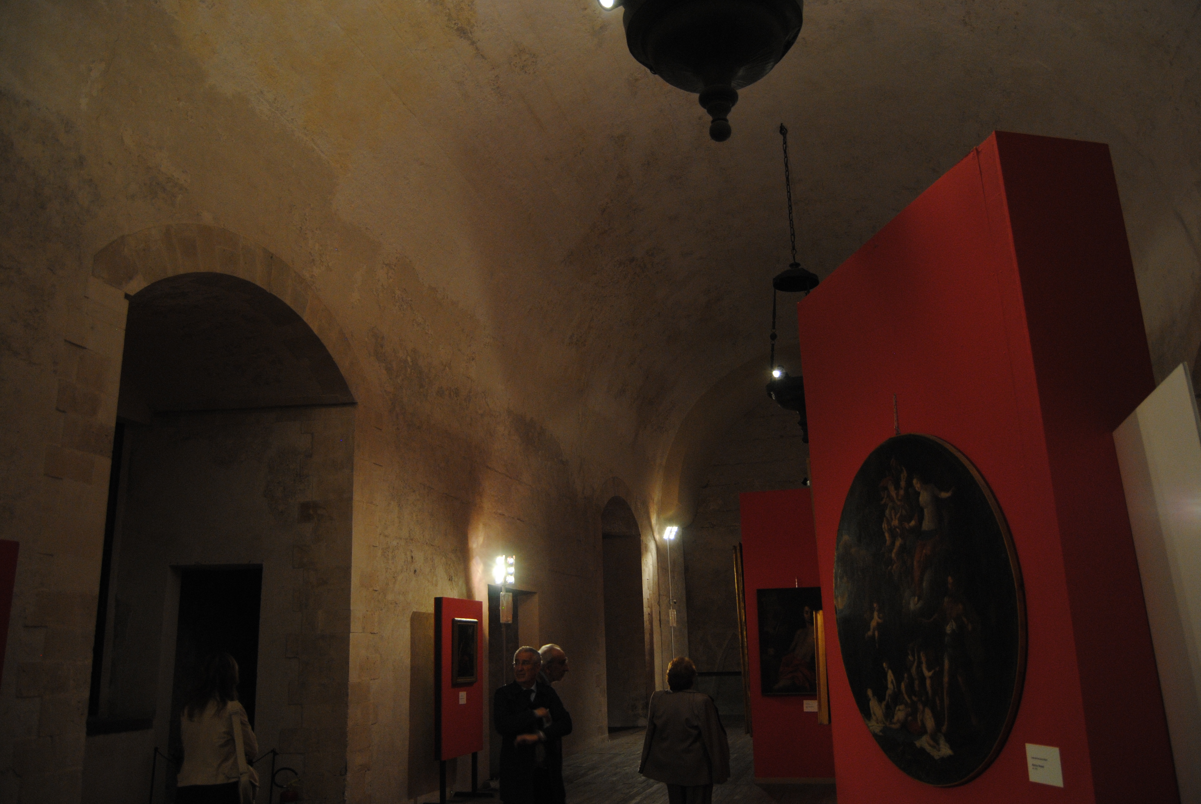 Hall of Parliament in the Ursino Castle, used during the Aragonese Kingdom of Sicily.